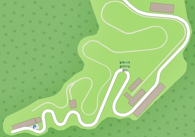 This map may be incomplete, and may contain errors. Don't rely solely on it for navigation.